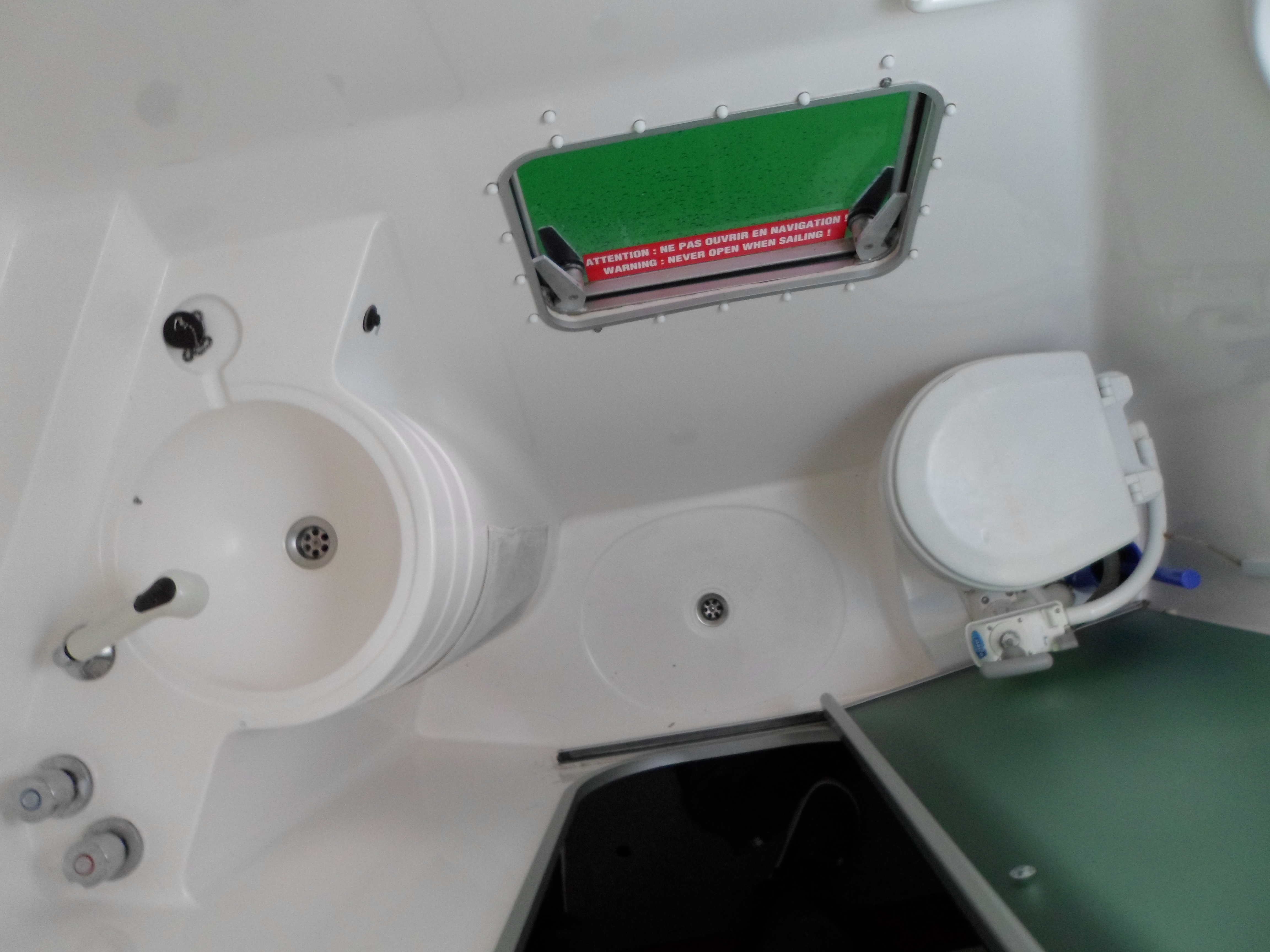 Head (watercraft) on a sailing yacht. The toilet is flushed using the lever at the bottom right. The hatch must always stay closed when underway